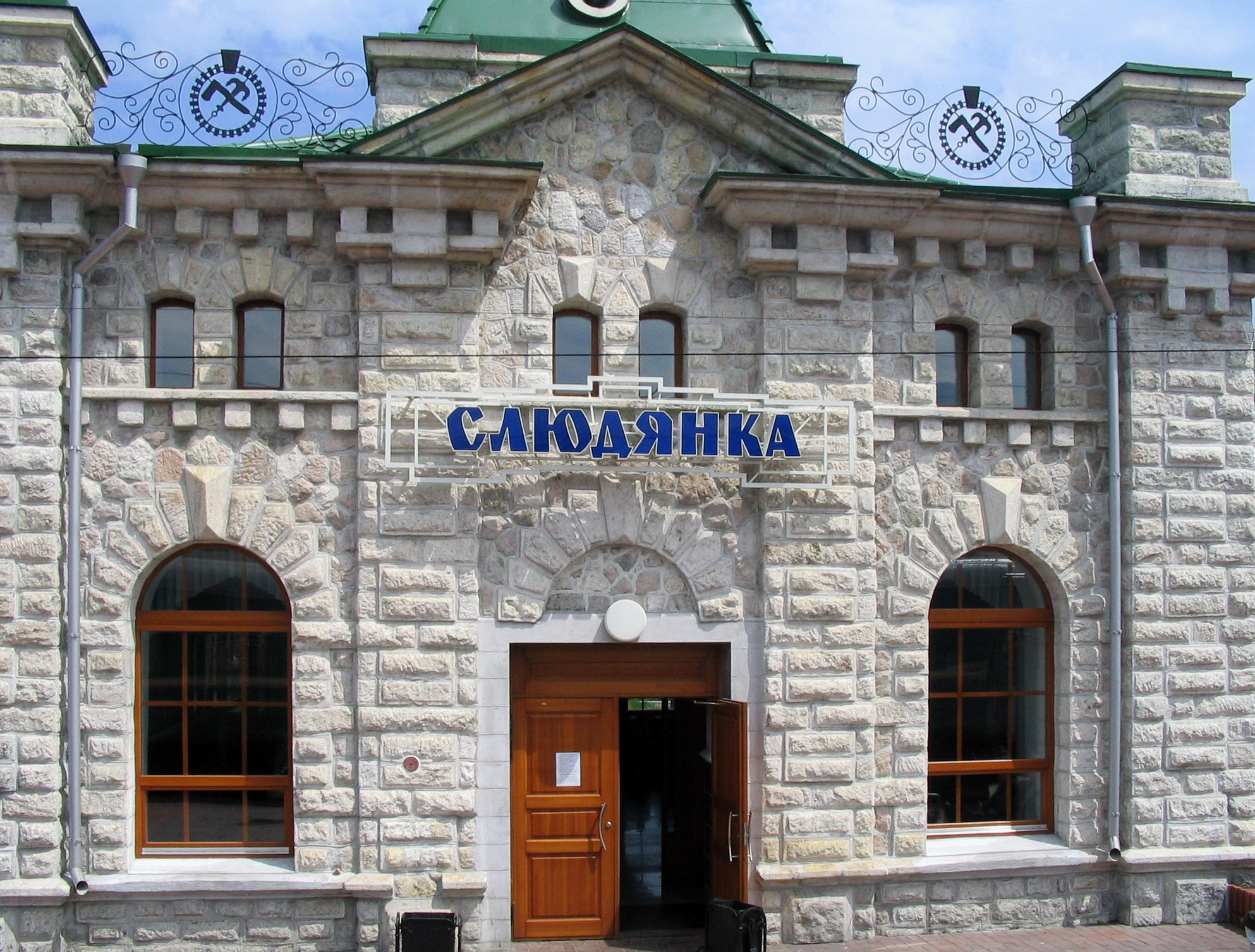 Picture of the Slyudyanka train station on the trans-Siberian railway in slyudyanka, Russia. Taken by me 7/06, released into public domain